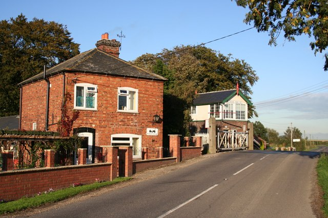 Scopwick level crossing. Scopwick crossing and Station Cottage.